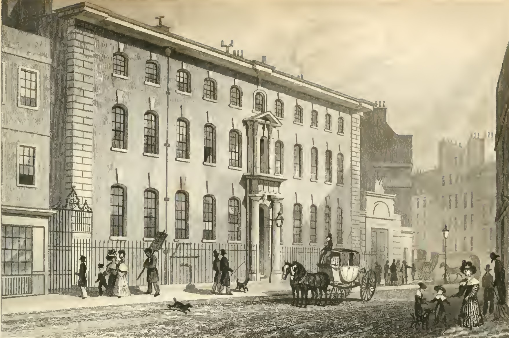 South Sea House, Threadneedle Street, London.